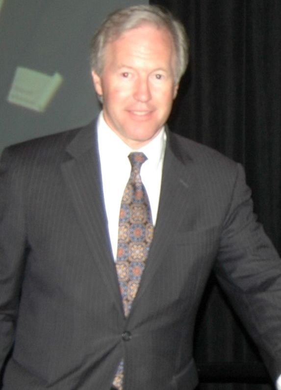 Candidate for Montgomery County Executive, Phil Andrews currently represents District 3.